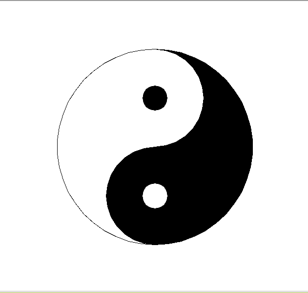 The following is a Turtle graphics based example to draw the Yin-Yang symbols using Logo like script written in Tamil programming language Ezhil